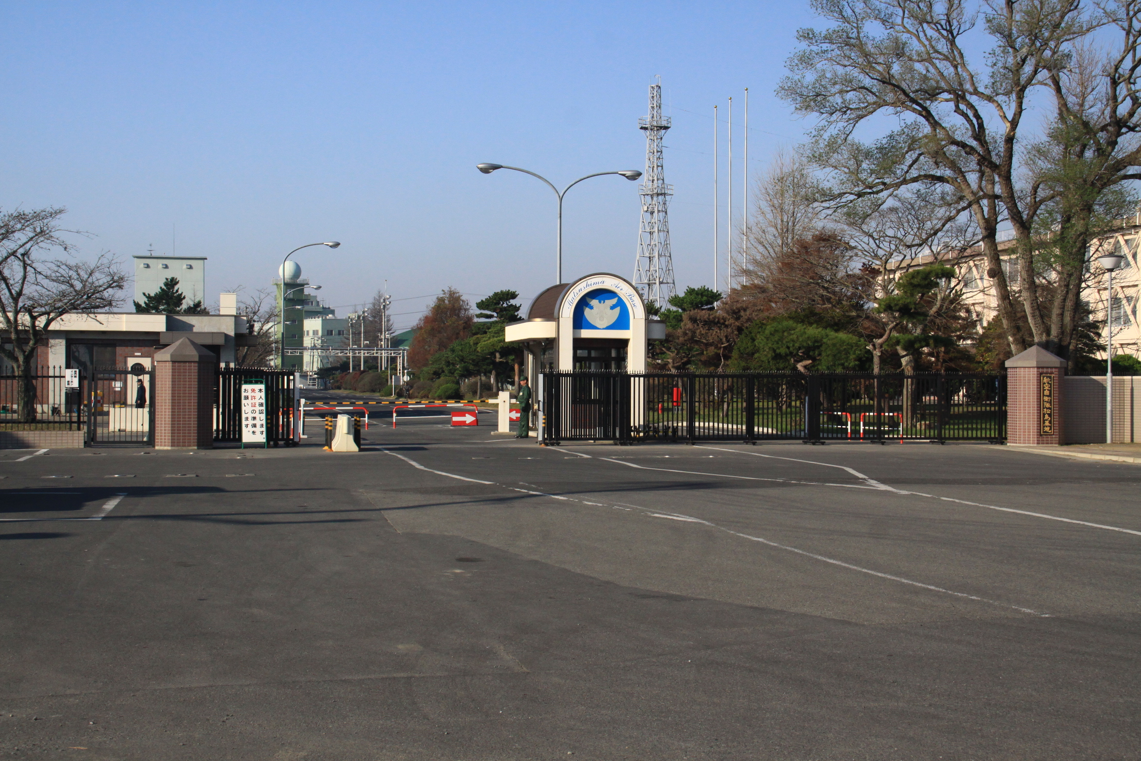 Matsushima Air Base Gate. Higashimatsushima, Miyagi.